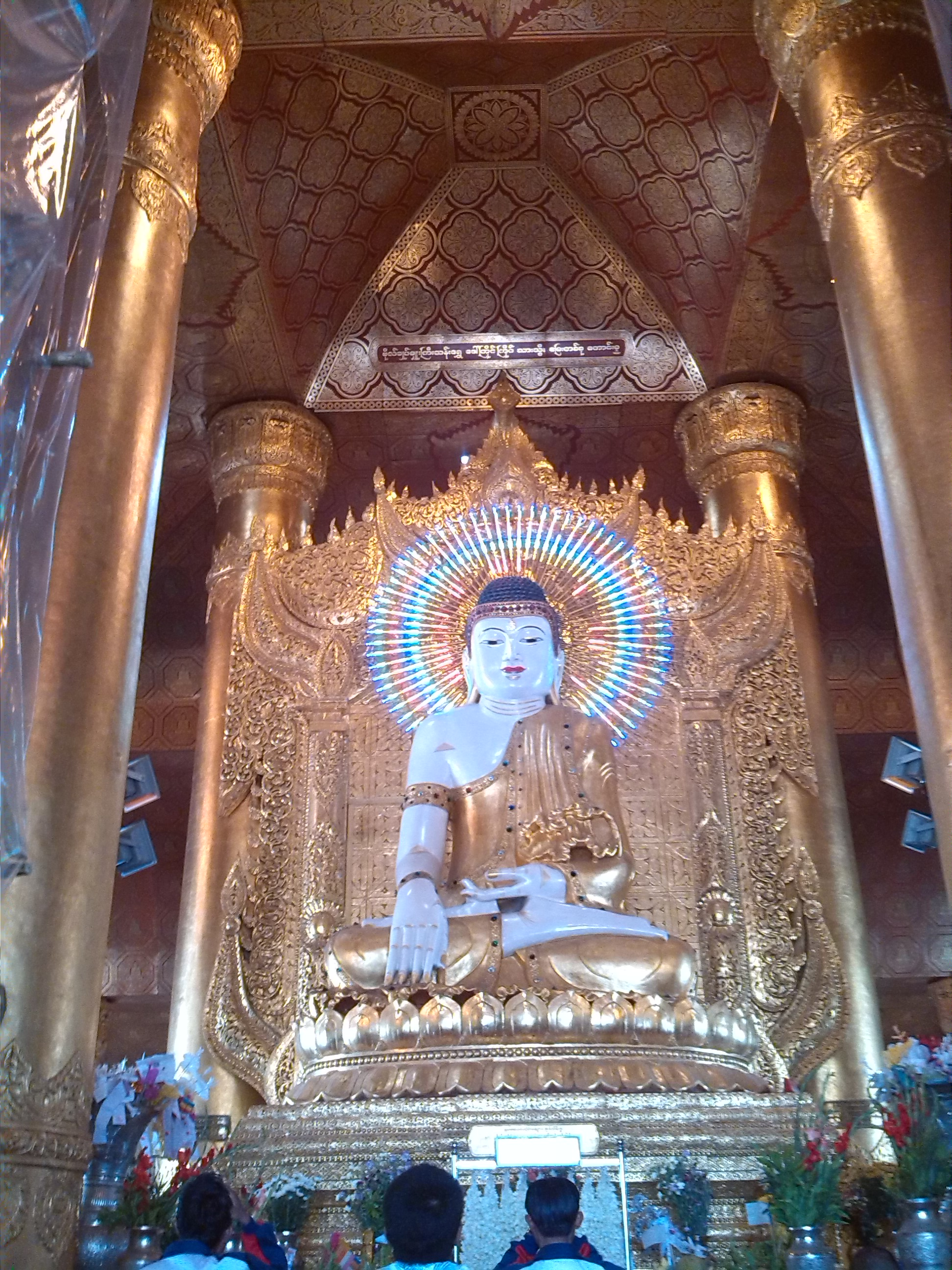 Mahar Ankhtookanthar Paya at Pyin Oo Lwinမြန်မာဘာသာ: ပြင်ဦးလွင်မြို့၊ မဟာအံ့ထူးကံသာဘုရား